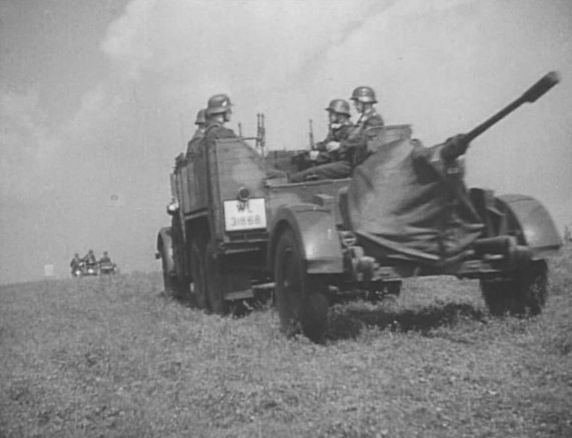 German Krupp Protze Kfz.81 prime mover towing a 2cm Flak gun during WWII. Screenhot taken from the 1943 United States Army propaganda film Divide and Conquer (Why We Fight #3) directed by Frank Capra and partially based on, news archives, animations, restaged scenes and captured propaganda material from both sides.